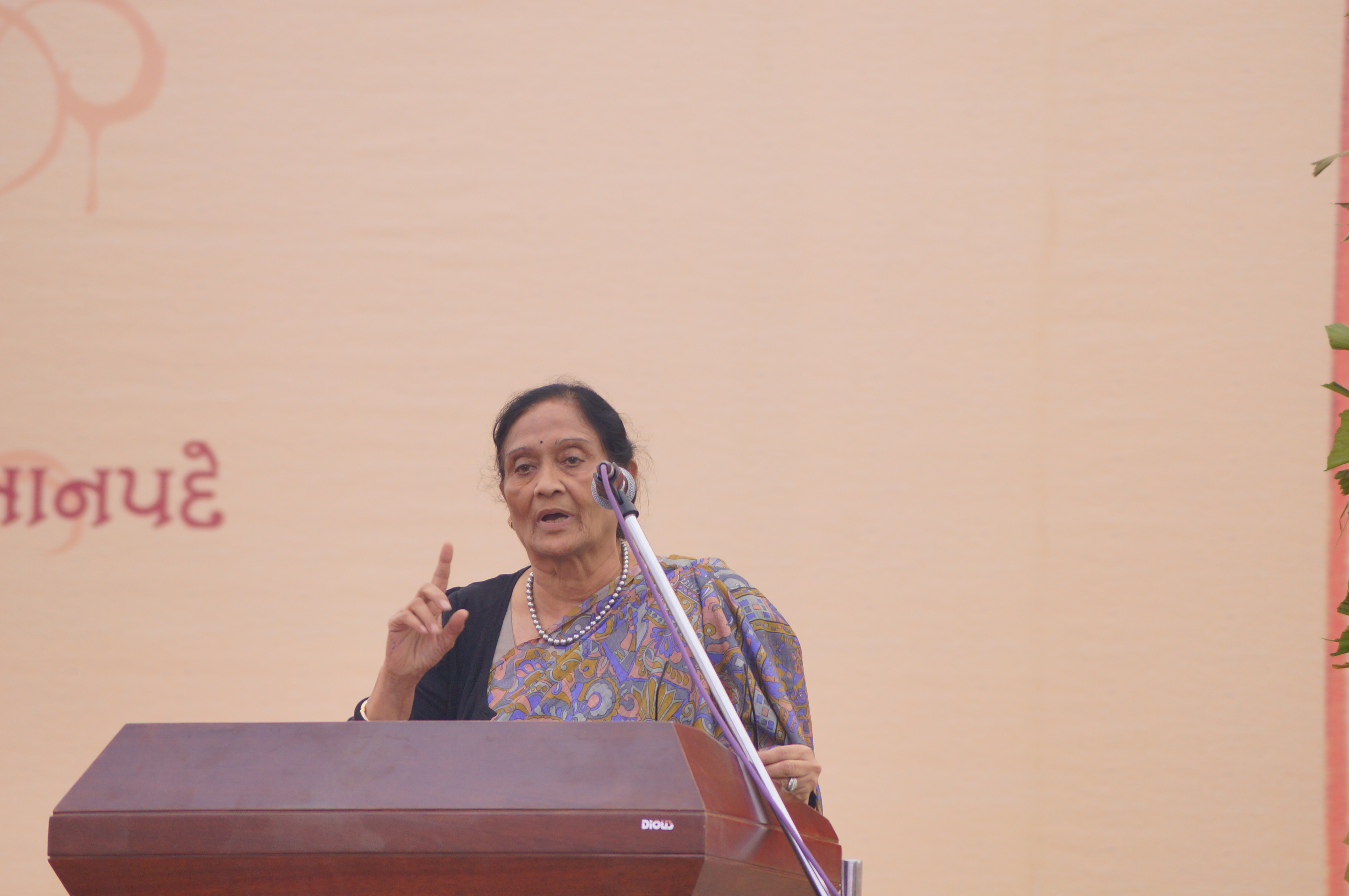 GSP 47th Adhiveshan - Day 3 - 5th Meet and Closing